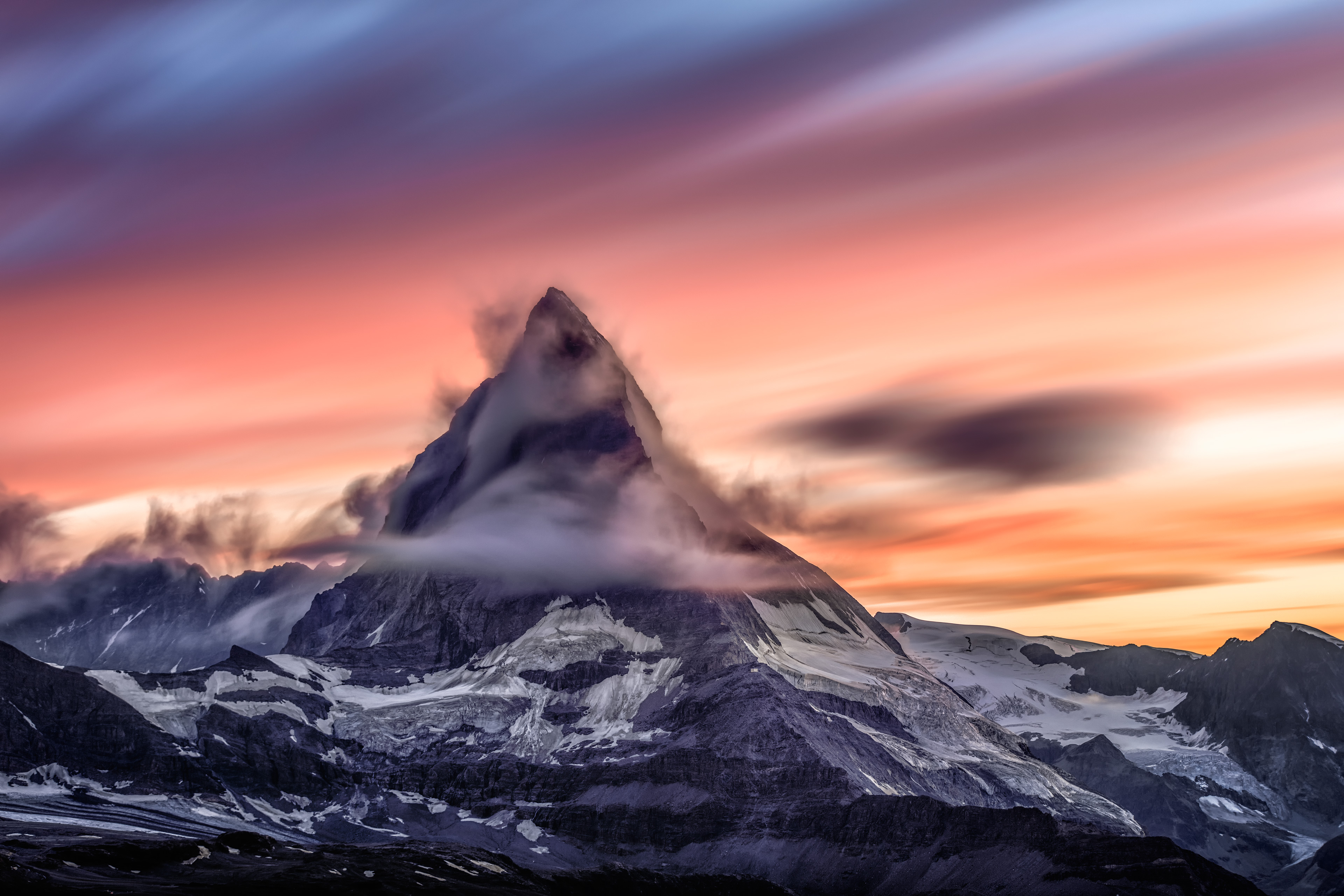 The Matterhorn at sunset in 2016.